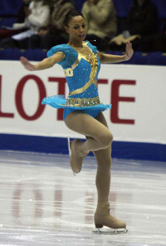 Kristine Musademba (USA) performs a twizzle during her free skating program at the 2008-2009 Junior Grand Prix Final. She placed 6th in this segment of the competition and 6th overall.